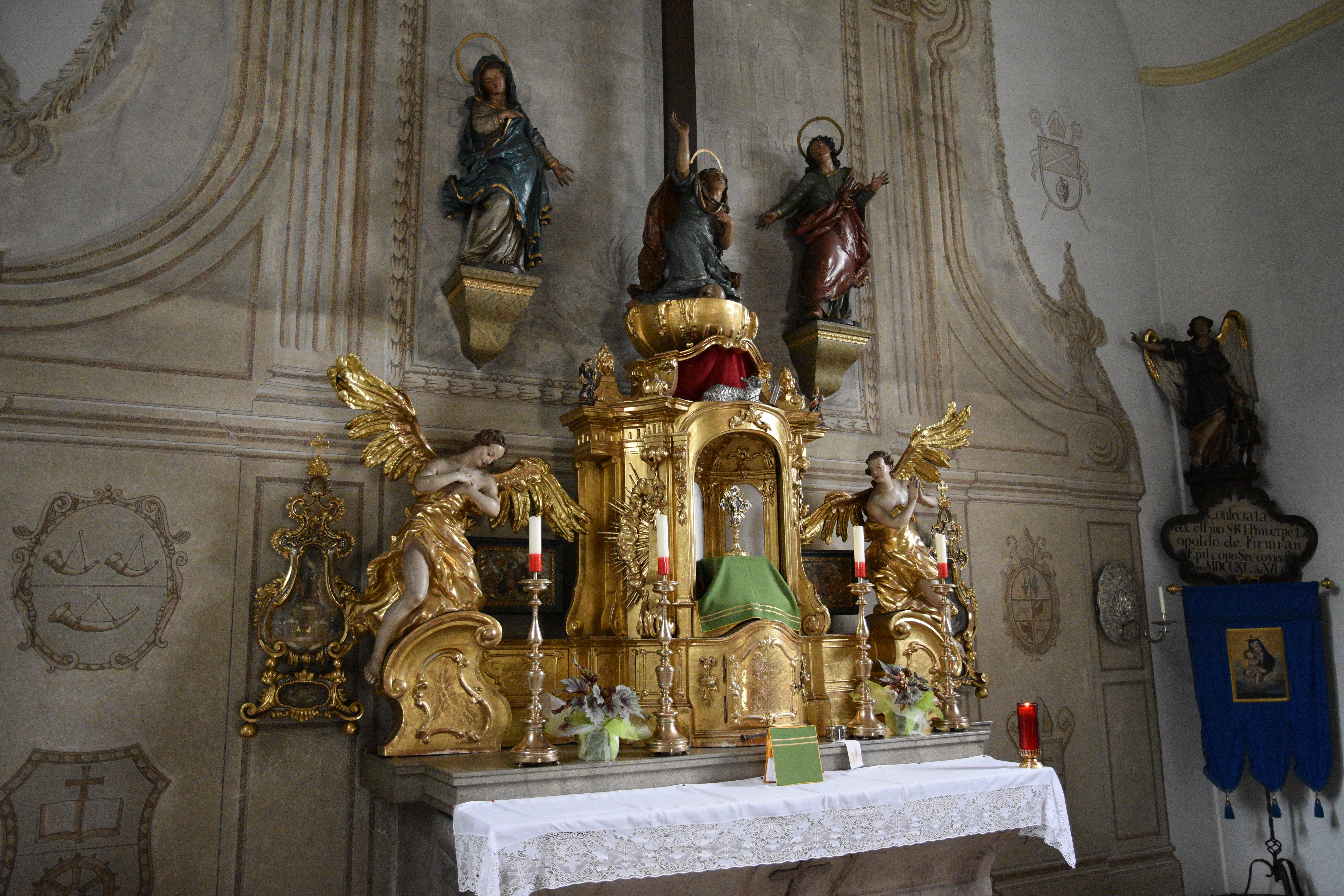 Church Pfarrkirche Hall bei Admont - Interior